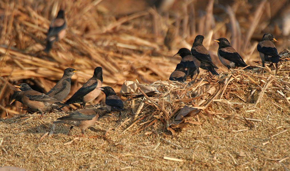 Rosy Starling, or Rose-coloured Starling Sturnus roseus near Hyderabad, India.